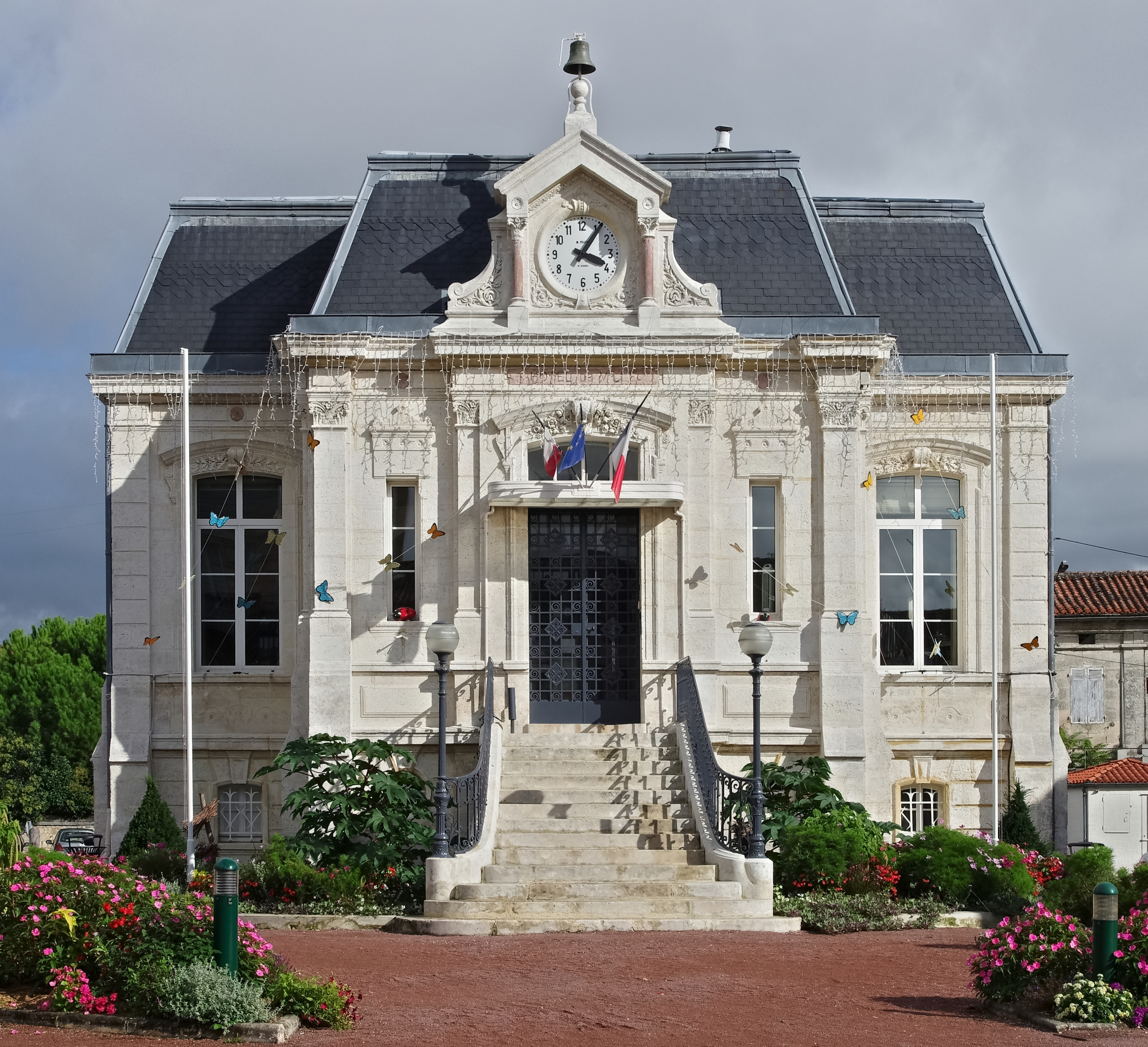 Town hall (1862) of La Couronne, Charente, France. Architecte : Paul Abadie.